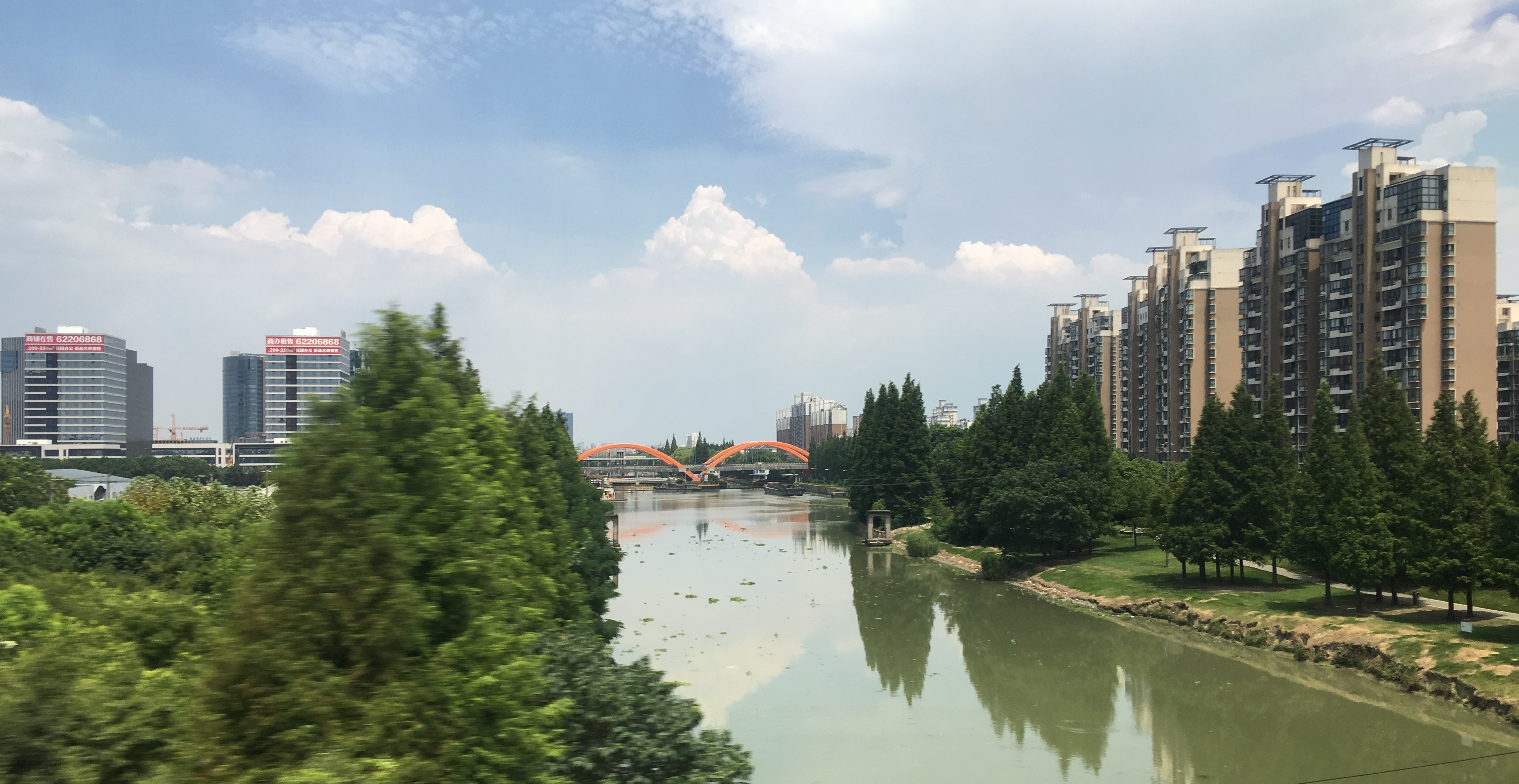 Image of the Dianpu river from the Qibao Town part of Minhang District, western Shanghai. This area s around the Zhongchun Road.